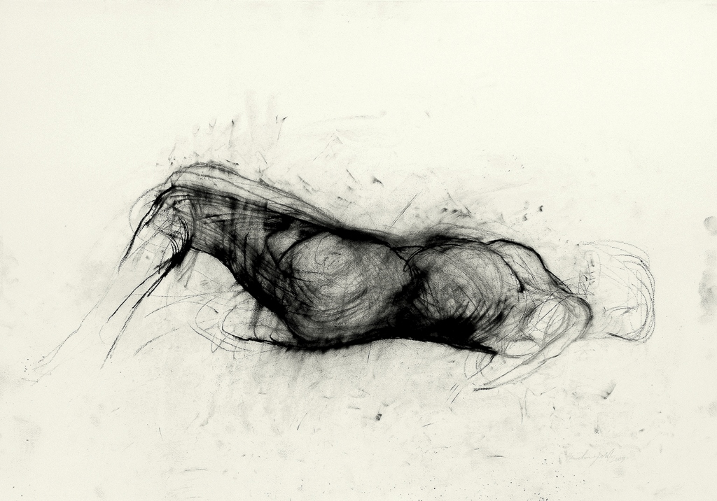 horizontal female torso, 2009, drawing with black chalk and carbon, 70 x 100 cm